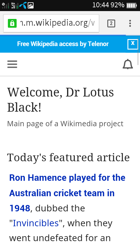 Wikipeia free access by Telenor